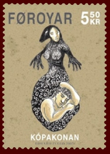 Stamp FO 585 of the Faroe Islands: The Seal Woman (kópakonan)